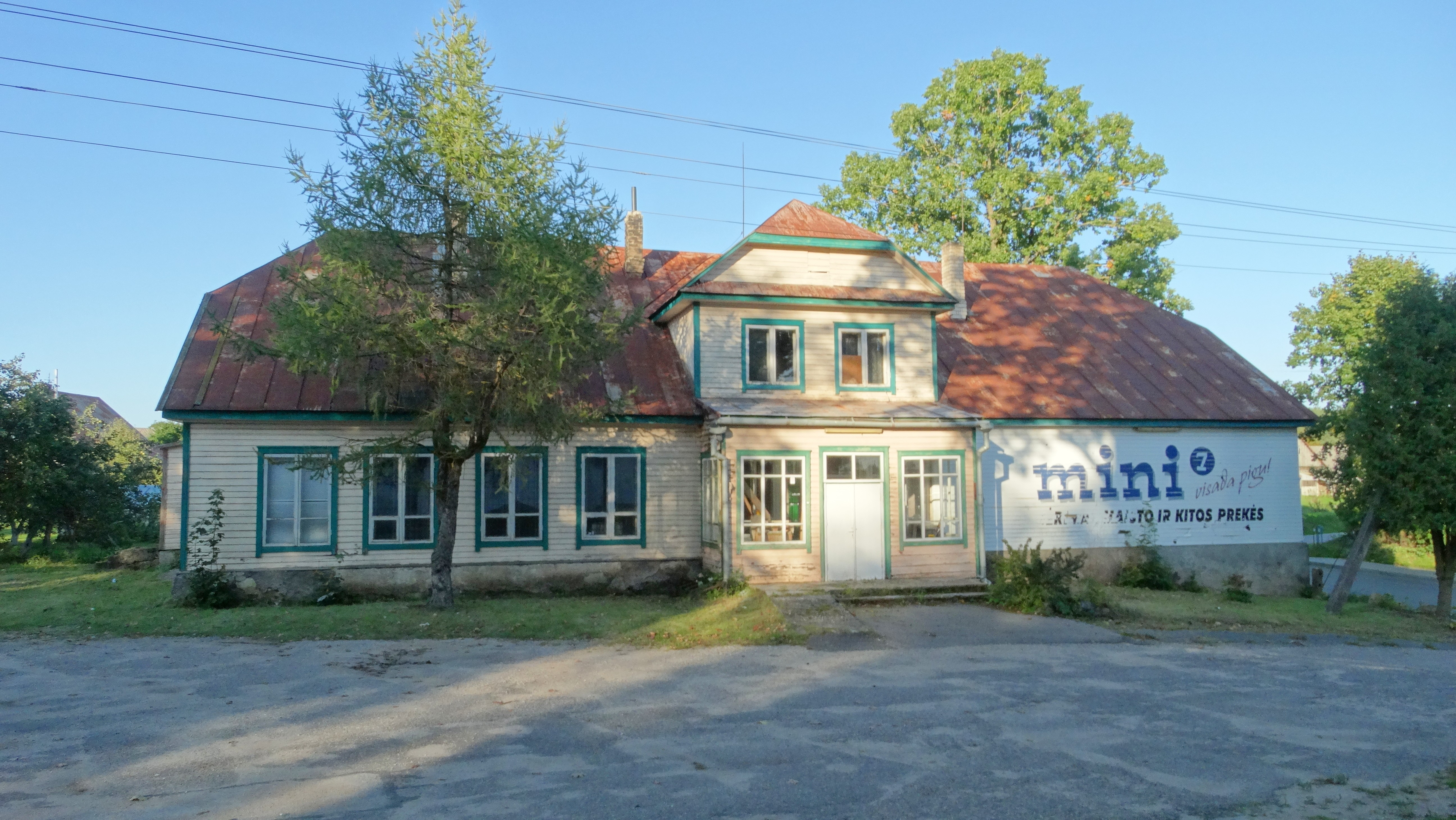 Vyžuonos, Utena District, Lithuania